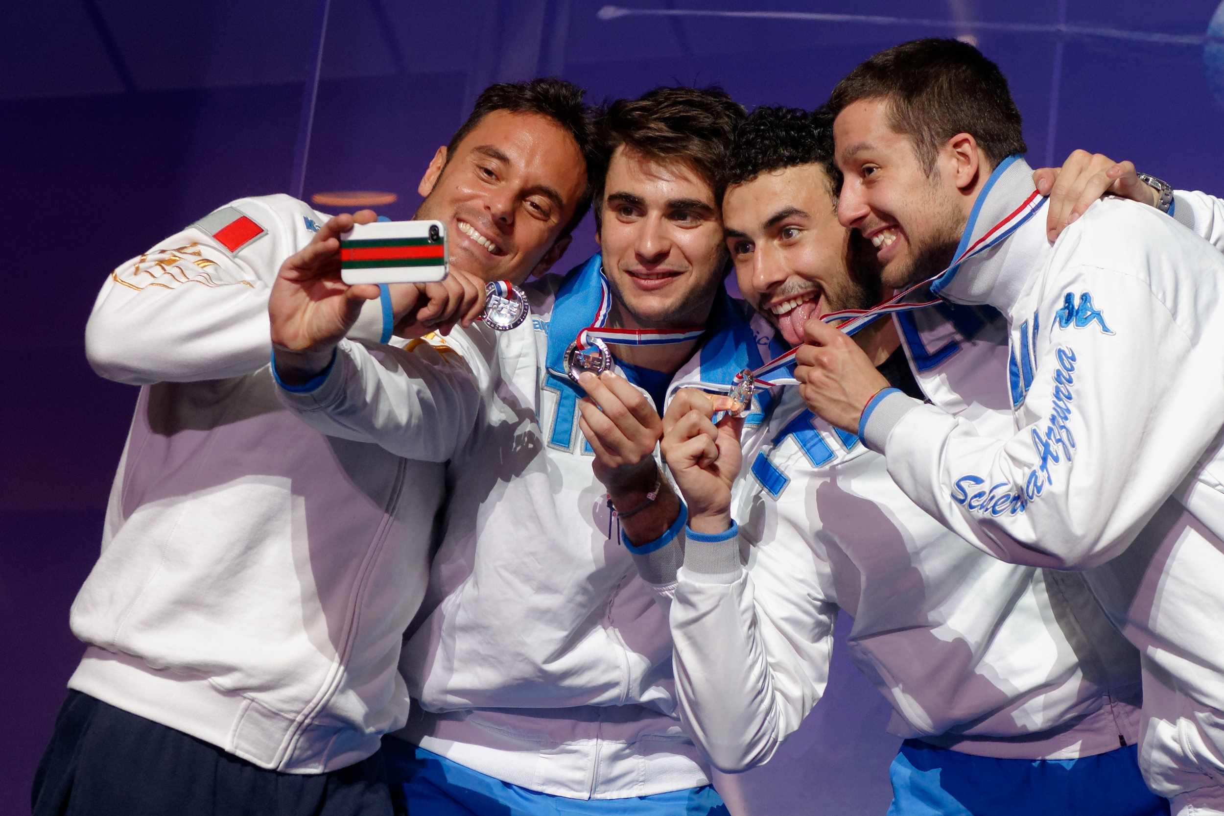 Italy's Enrico Garozzo takes a selfie with his teammates (from left to right, Paolo Pizzo, Marco Fichera, and Gabriele Bino) on the podium of the 2014 Challenge RFF-Trophée Monal, a men's épée World Cup event, on 4 May 2014.